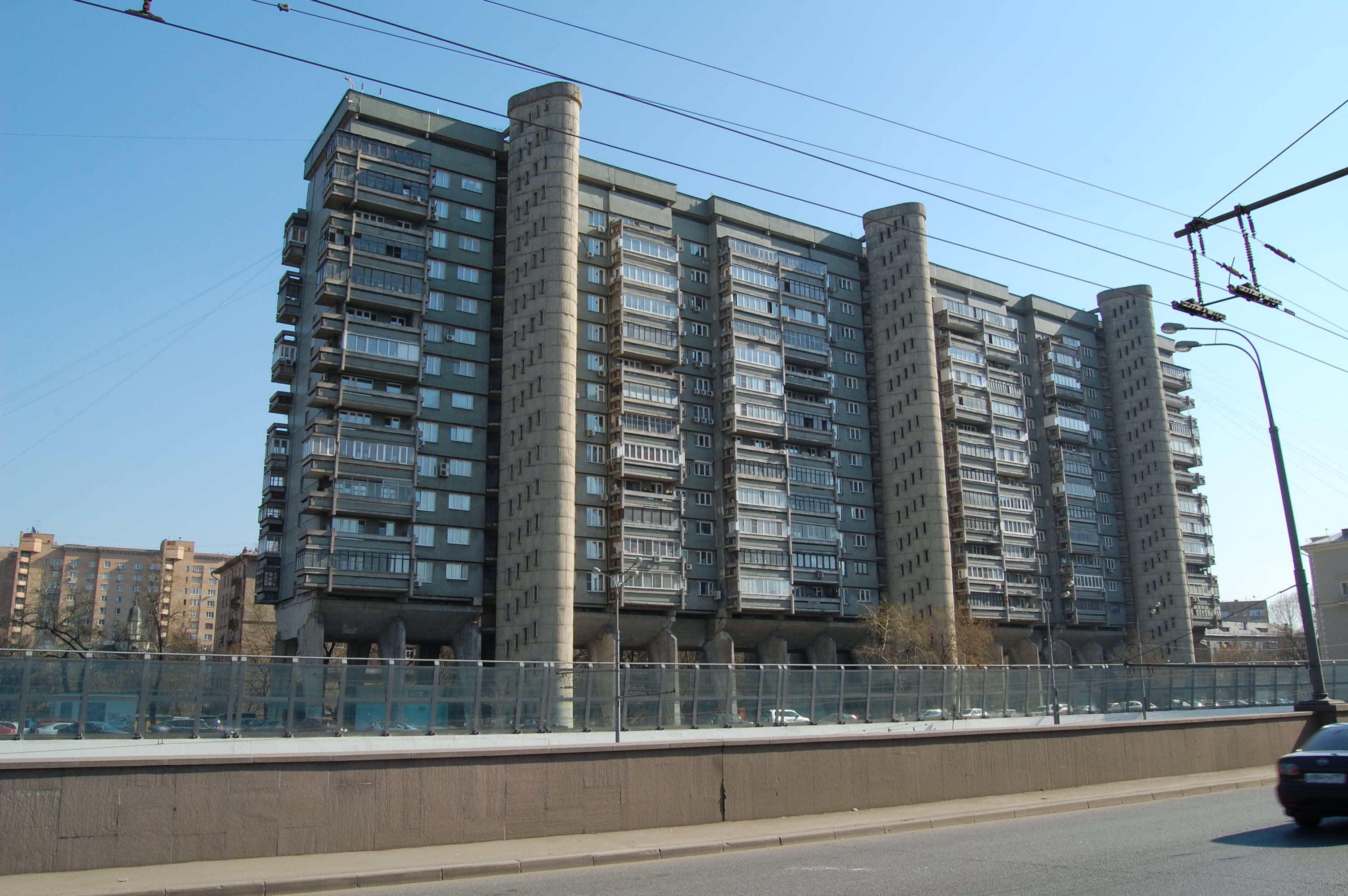 Aviators' house, Begovaya street